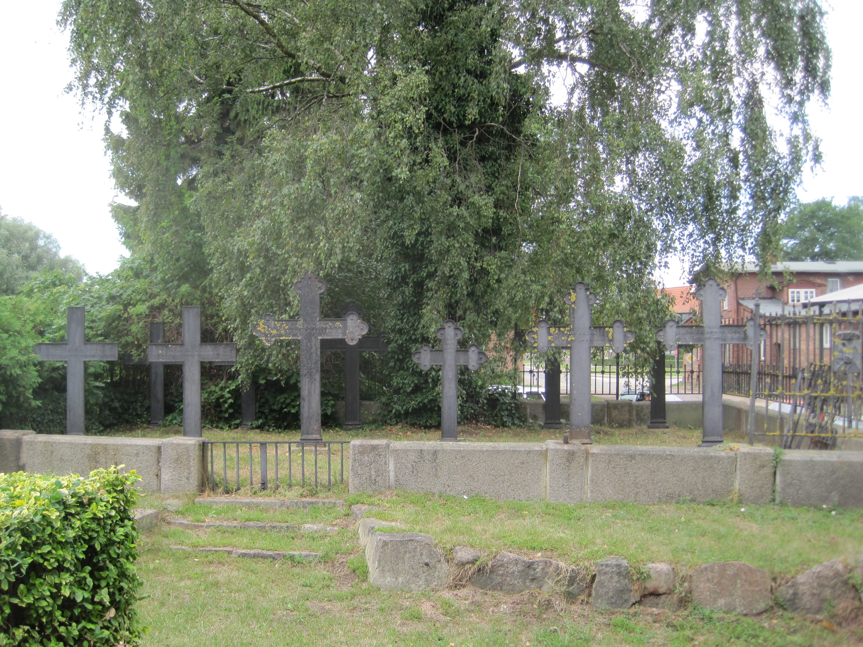 Graves of the Rodde family in the cemetery of Tarnow church, near Bützow in Mecklenburg